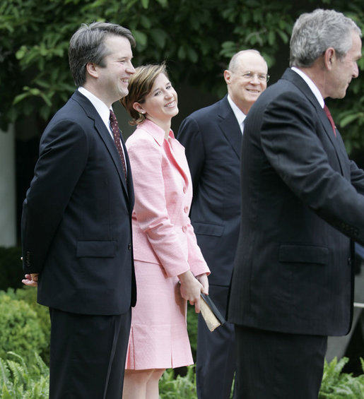 Ashley Estes Kavanaugh with husband Brett Kavanaugh (left) and George W. Bush (right)